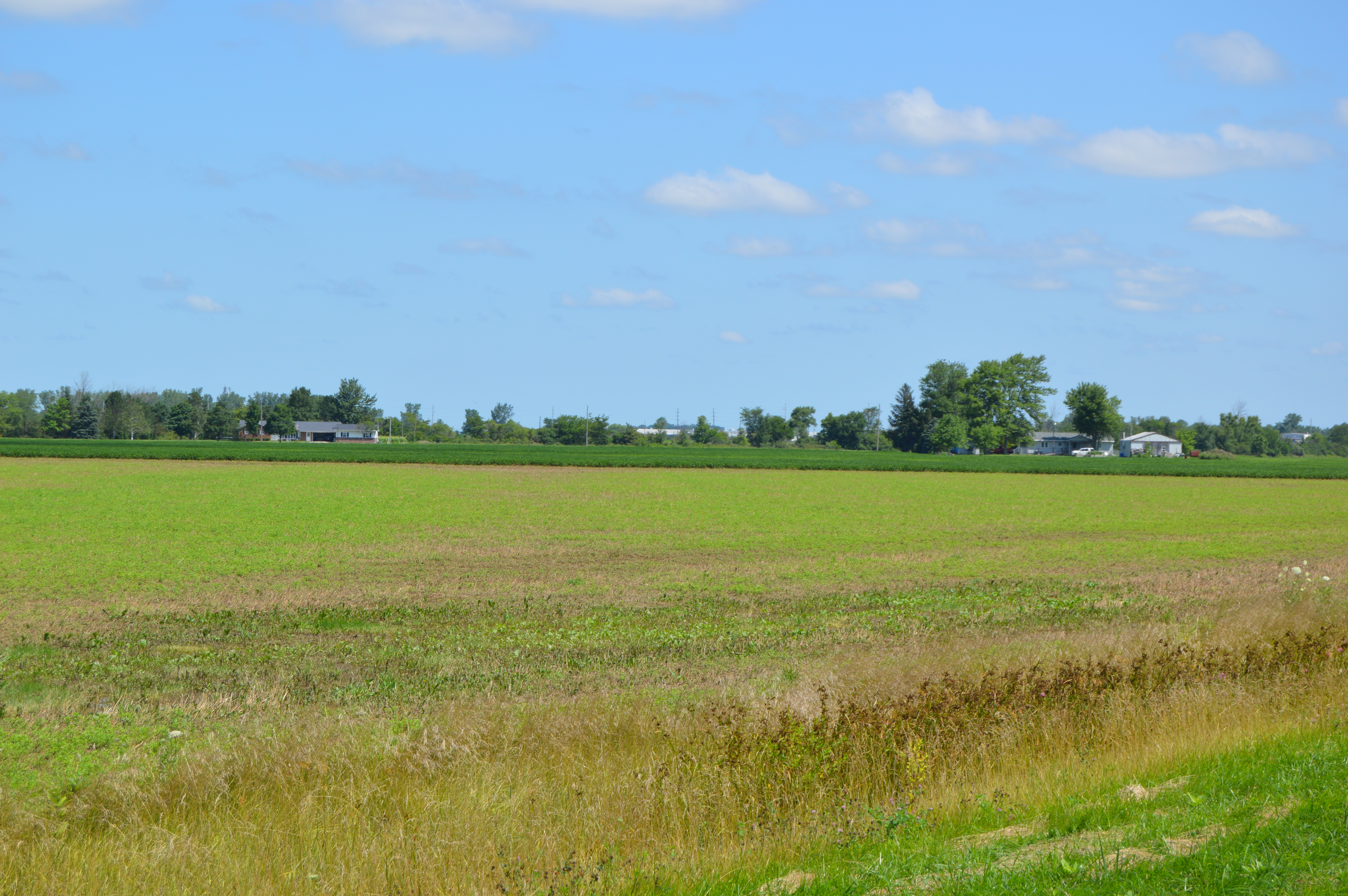 Fields in southeastern Bartlow Township, Henry County, Ohio, United States, looking west from Road 3C southwest of Deshler.